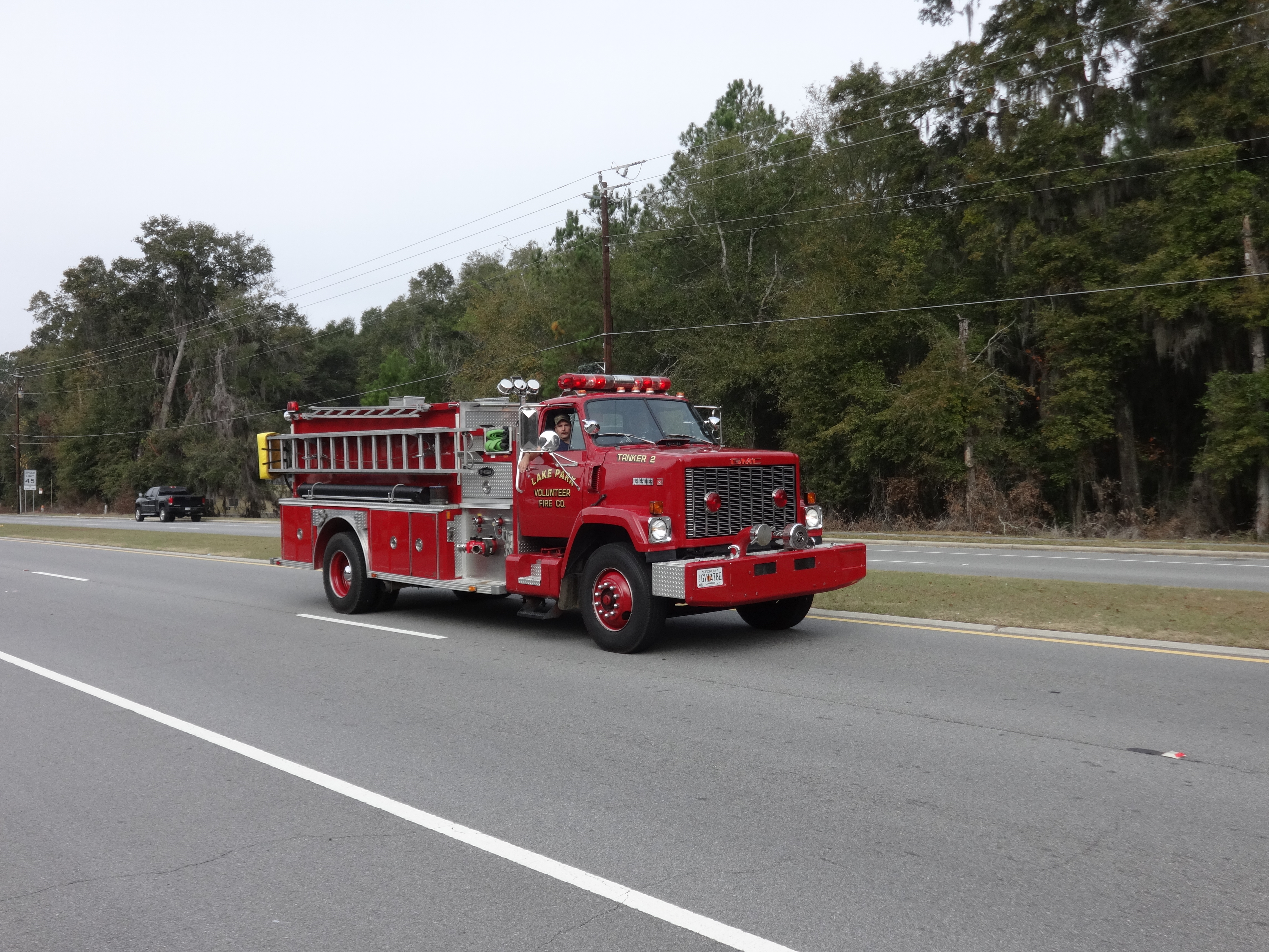 2014 Lake Park Christmas Parade, Lake Park, Lowndes County, Georgia